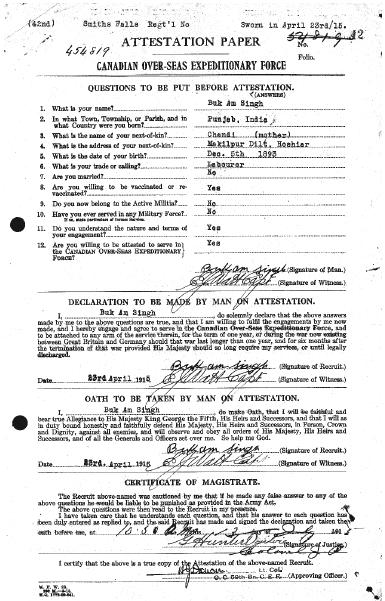 Form to enlist Buckam Singh in WW1.